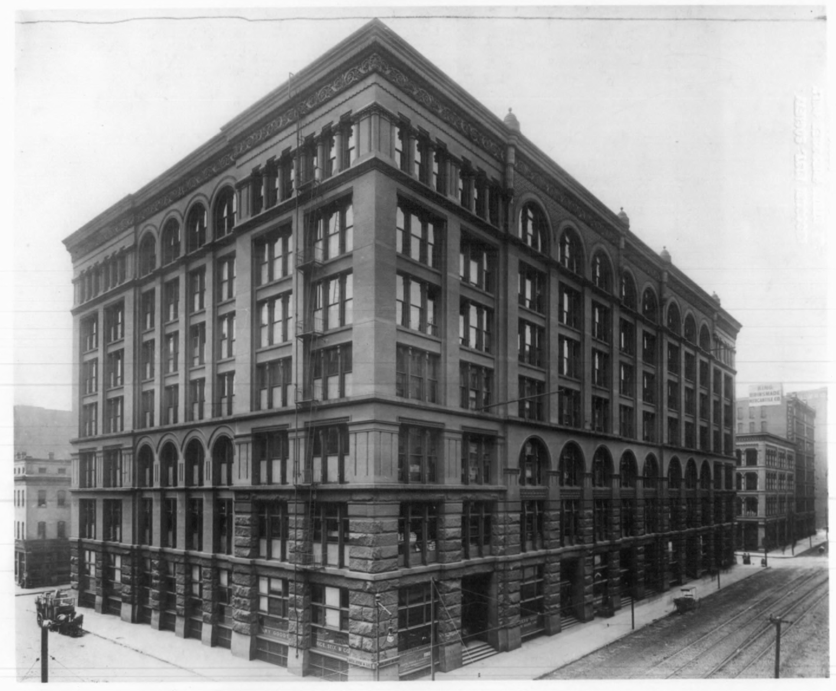 The Liggett & Myers/Rice-Stix Building (later the Gateway Merchandise Mart), St. Louis, Missouri (USA), designed by Isaac S. Taylor and built 1888-89. Photographer unknown; dated between 1903 and 1911.